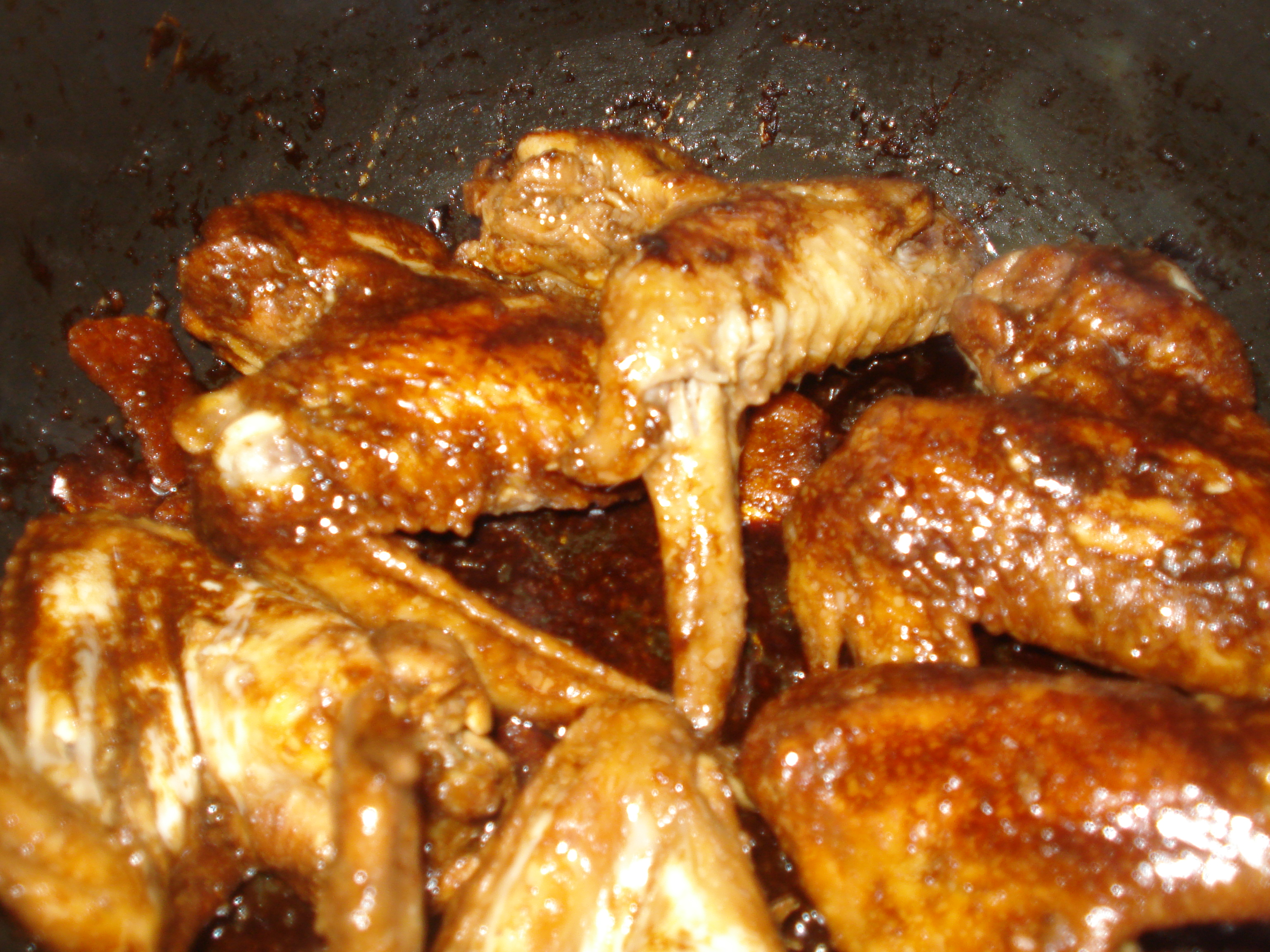 Taken by my own camera.